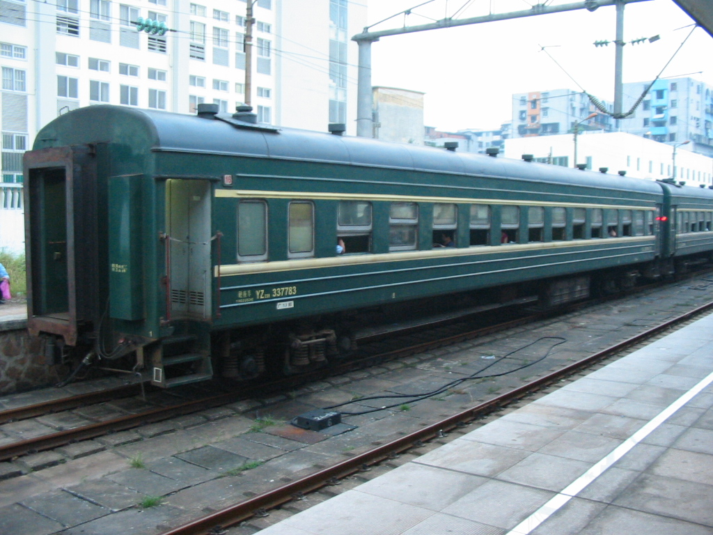 China Railways coache Type 22B